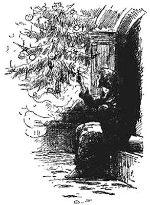 Public domain illustration by A.J. Bayes (1889) for The Little Match Girl.